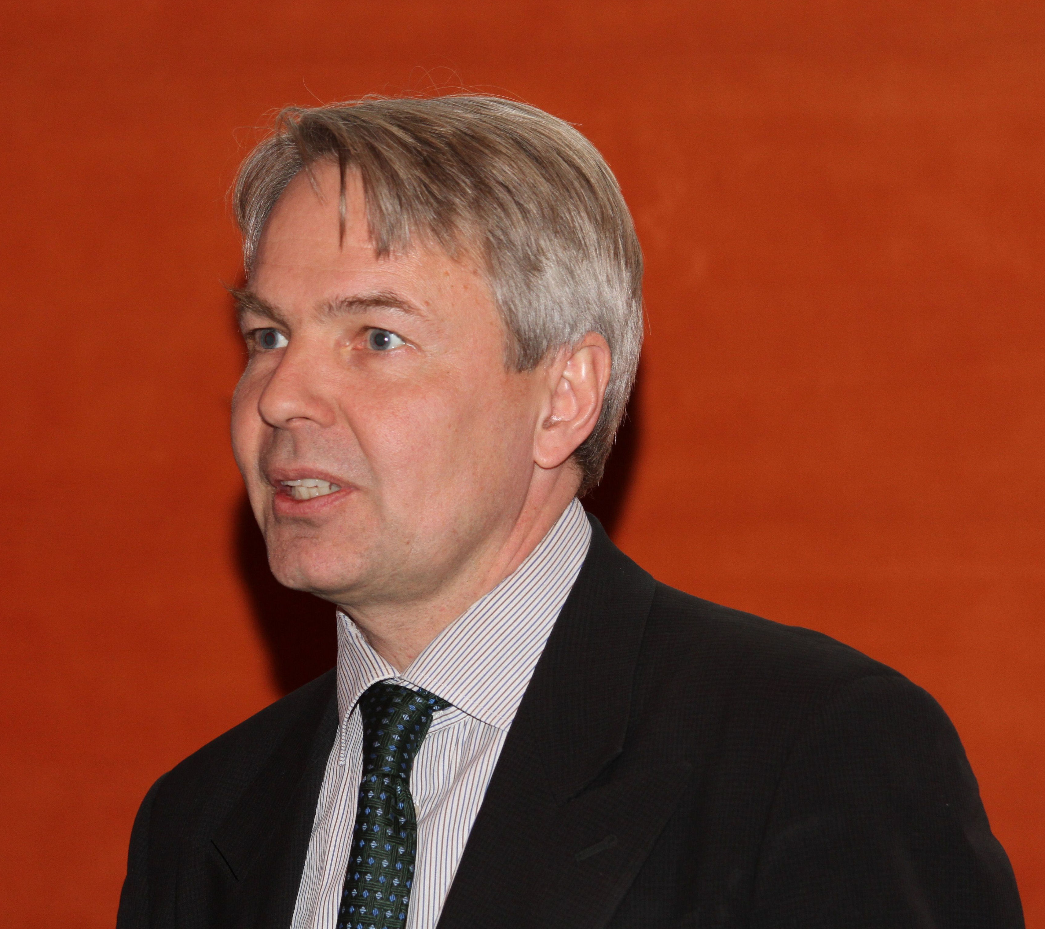 Pekka Haavisto